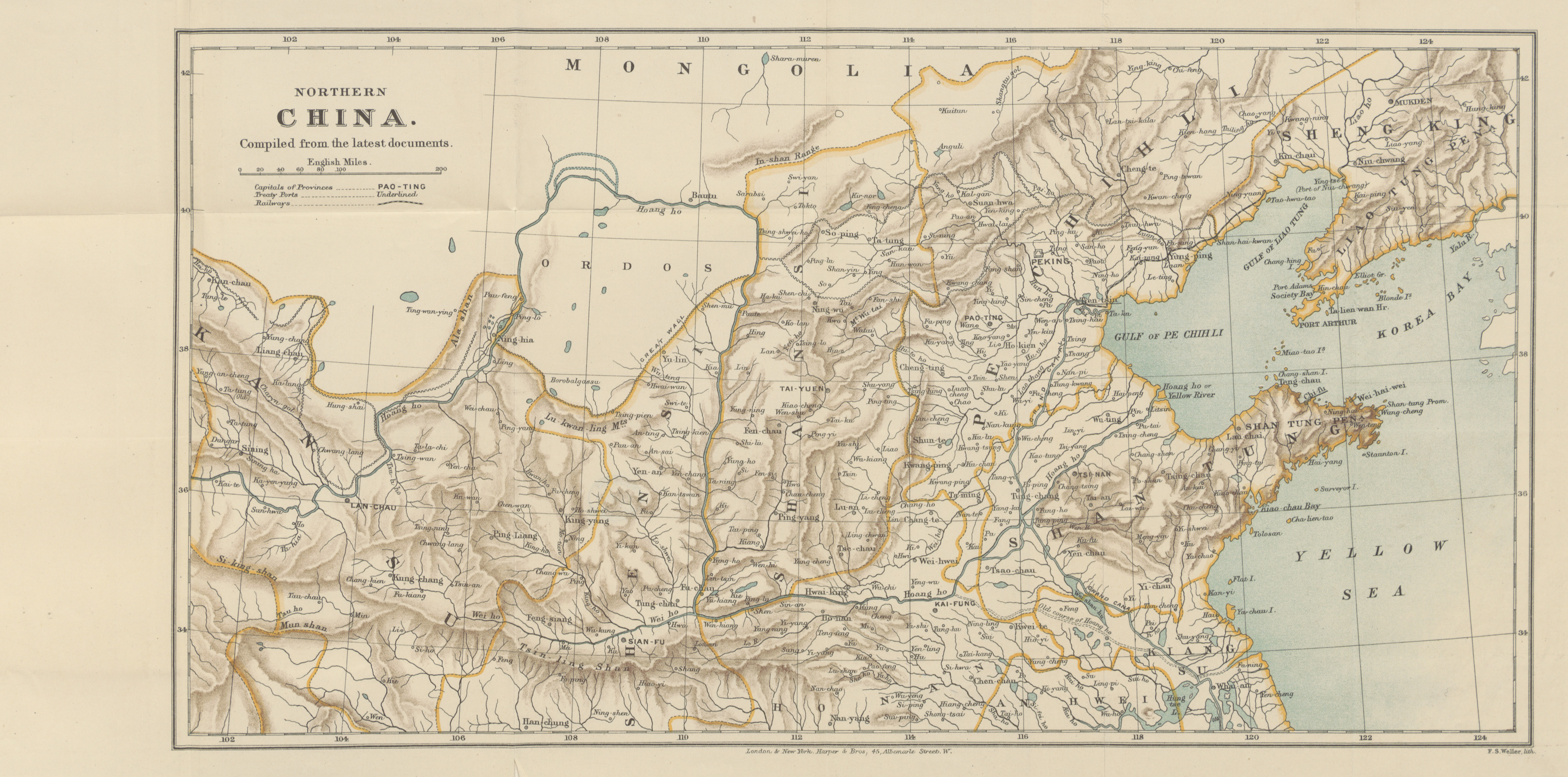 Map of Northern China. Image taken from page 413 of 'China in Transformation ... With ... maps and diagrams' Author: COLQUHOUN, Archibald Ross. Shelfmark: "British Library HMNTS 010057.f.41." Page: 413 Place of Publishing: London Date of Publishing: 1898 Publisher: Harper & Bros. Issuance: monographic Identifier: 000753468